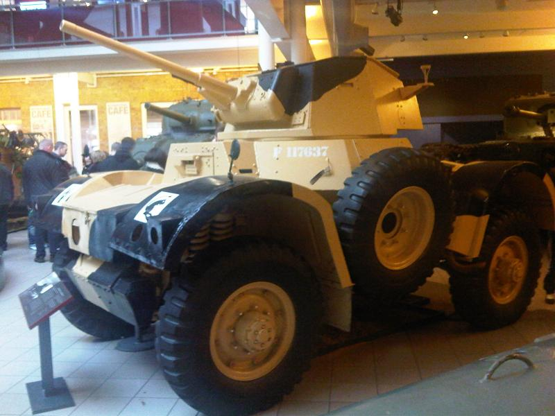 Daimler mark 14 x 4 armoured car at the Imperial War Museum in London, England. British Second World War armoured car used for reconnaissance duties. Throughtout the Second World War the British used armoured cars for reconnaissance, relying on speed rather than armour for survival. The Daimler was a standart vehicle used by the Army's armoured car regiments from 1941 and by the infantry division reconnaissance regiments after 1944, serving in all theatres of the war particularly North Africa and nord-west Europe. 2,694 Daimler Mark Is and Mark IIs were produced and some remained in service after the war. Work on the car began in April 1939 but because of transmission and component problems, it did not enter service until April 1941. It was developed from a light scout car introduced by the BSA Company in 1938-9 (later called the Daimler Dingo). It had any advanced design features: no conventional chassis; duplicate steering at the rear to aid driving in reverse at speed to escape from ambush; transmission and suspension enabling one wheel to be raised up 16 inches without the others losing contact with the ground; and disc brakes. The Daimler had the turret of the Tetrarch light tank which carried a 2-pounder gun. This example was transferred to the Museum from the Ministry of Defence in September 1966. Its service history is not known. It is painted in the camouflage scheme of 1st Kings Dragoon Guards, Sicily, September 1943. Crew: 3